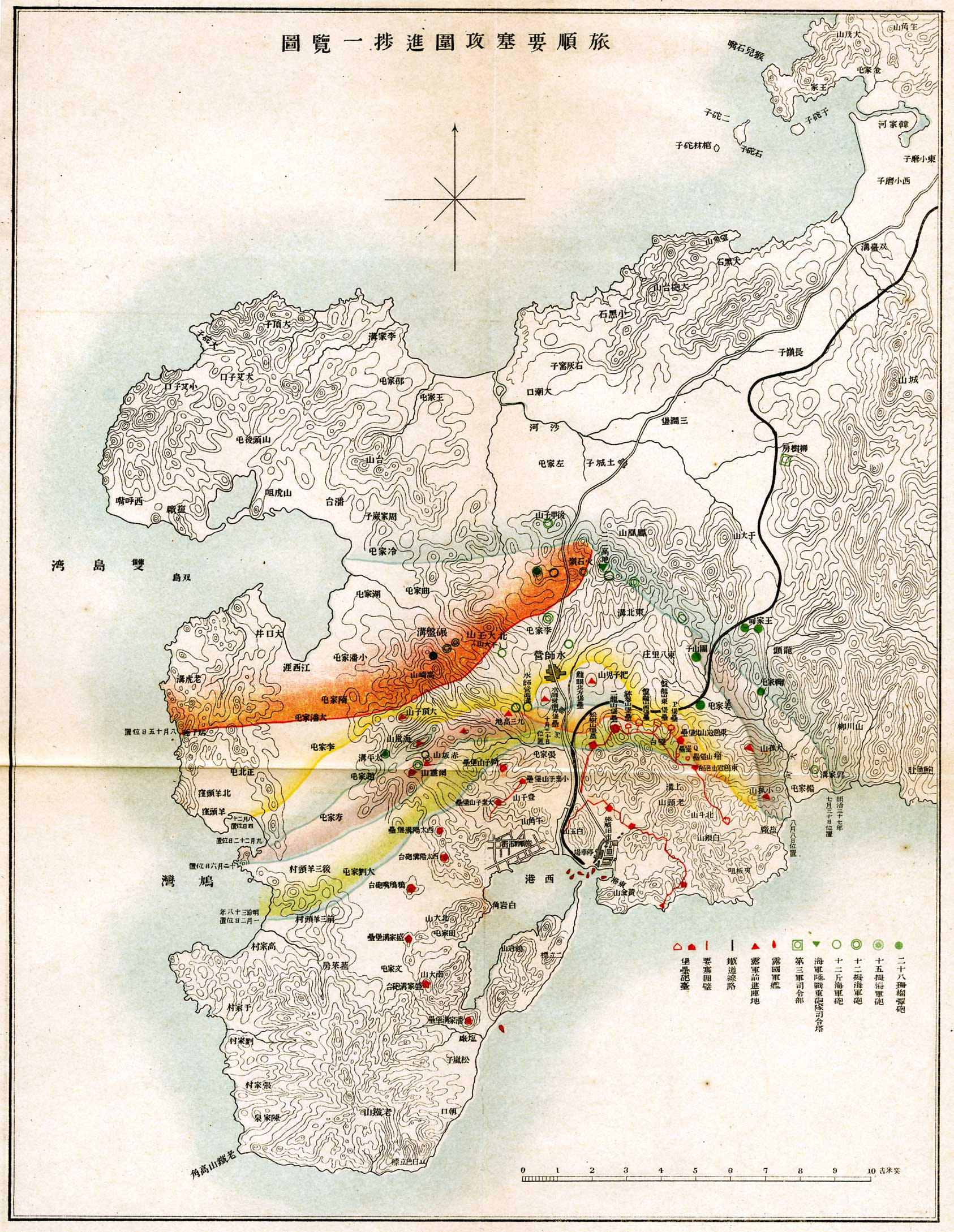 Map of the Encirclement of Port Arthur Fortification